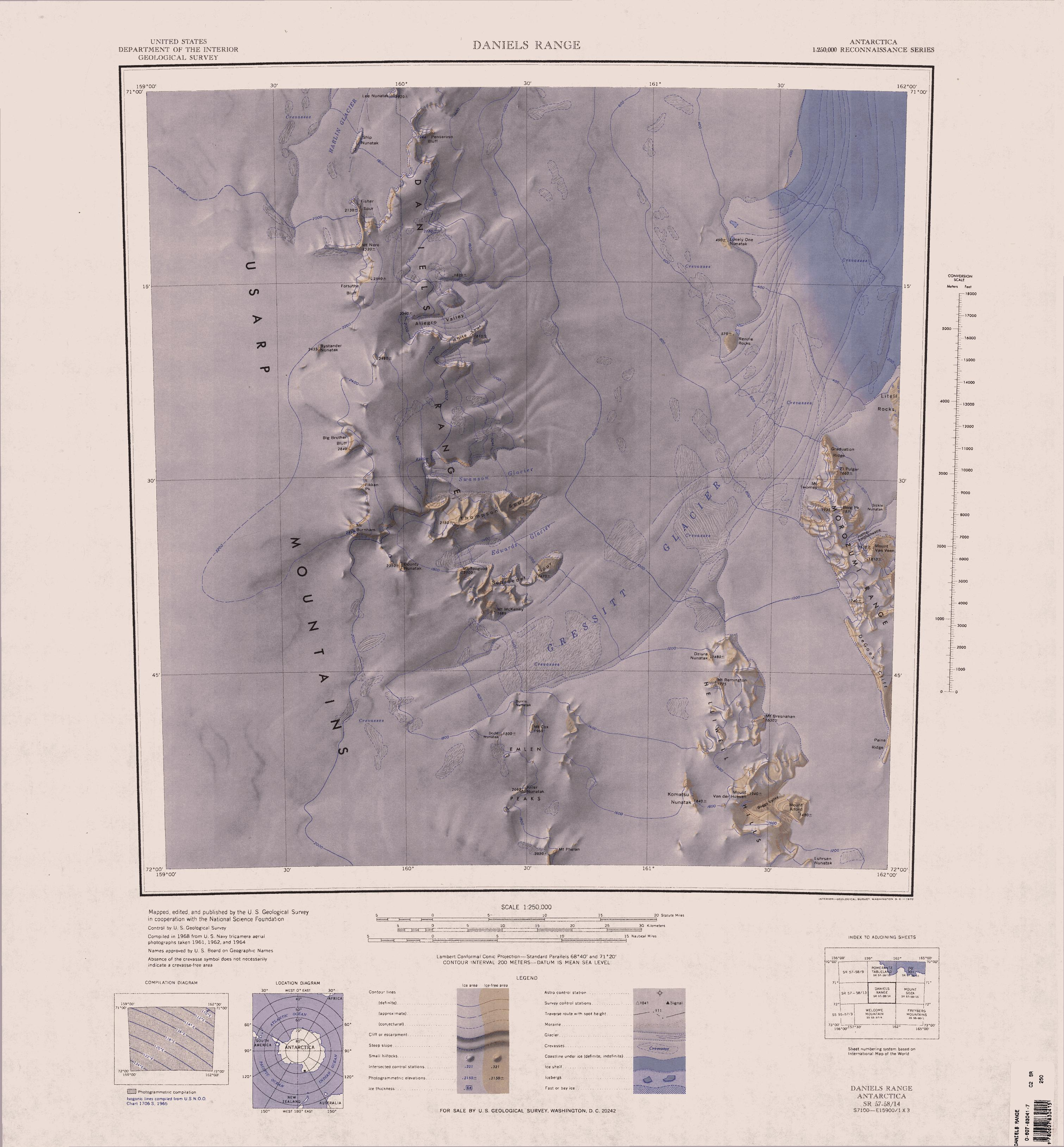 1:250,000-scale topographic reconnaissance map of the Daniels Range area from 159°-162°E to 71°-72°S in Antarctica, including the central parts of Usarp Mountains and the Gressitt Glacier. Mapped, edited and published by the U.S. Geological Survey in cooperation with the National Science Foundation.